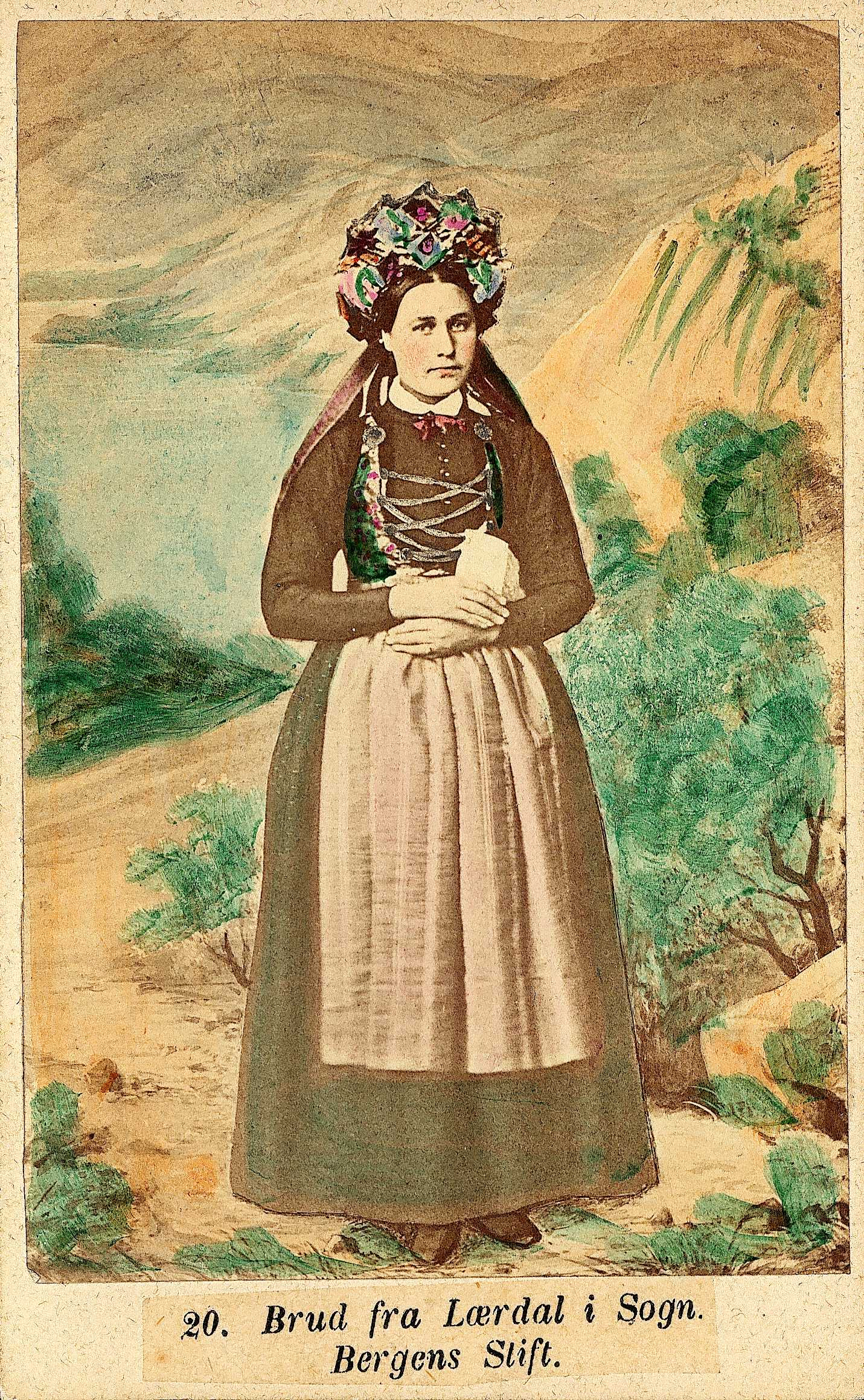 Bridal dress with snørelenke [lacing chain], from Lærdal around 1870. The picture is from the series "Norske Nationaldragter" [Norwegian Traditional Dress] (no.20) photographed by Marcus Selmer (1819-1900), Bergen. In the collection of the Norwegian Folk Museum.